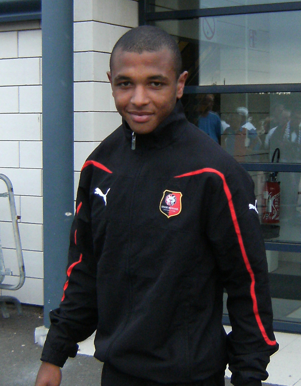 Yacine Brahimi after a friendly game between Stade rennais FC and Stade Malherbe de Caen in Ouistreham